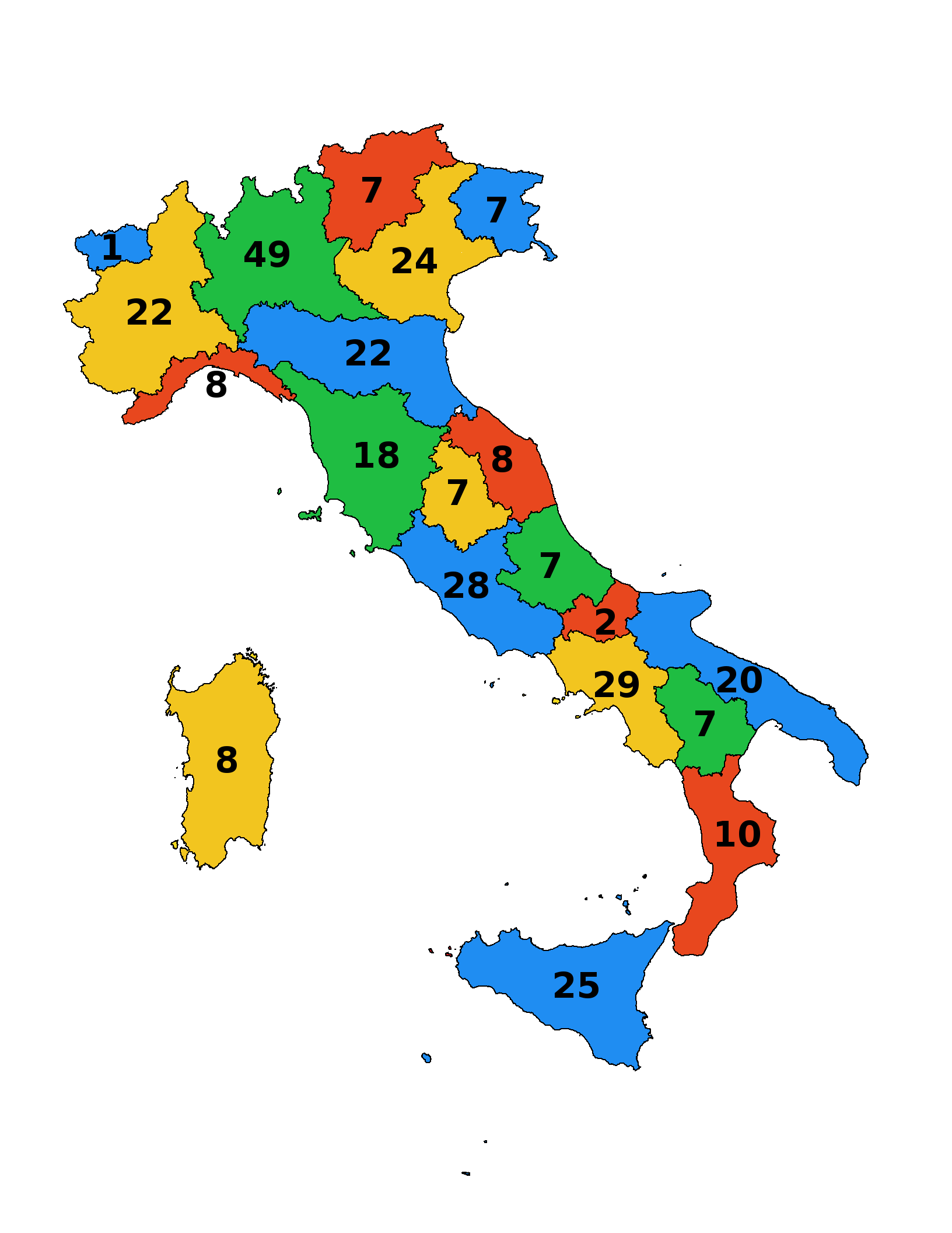 Number of seats assigned to each Region in the Senate of Italy.